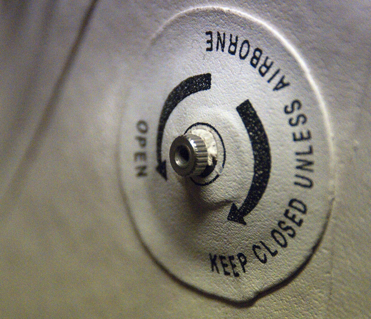 Close-up of the air release valve on a bunny boot, Point Lay, Alaska.